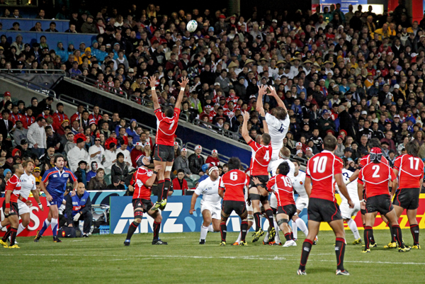 Japan flanker Michael Leitch and France lock Julien Pierre contest a lineout